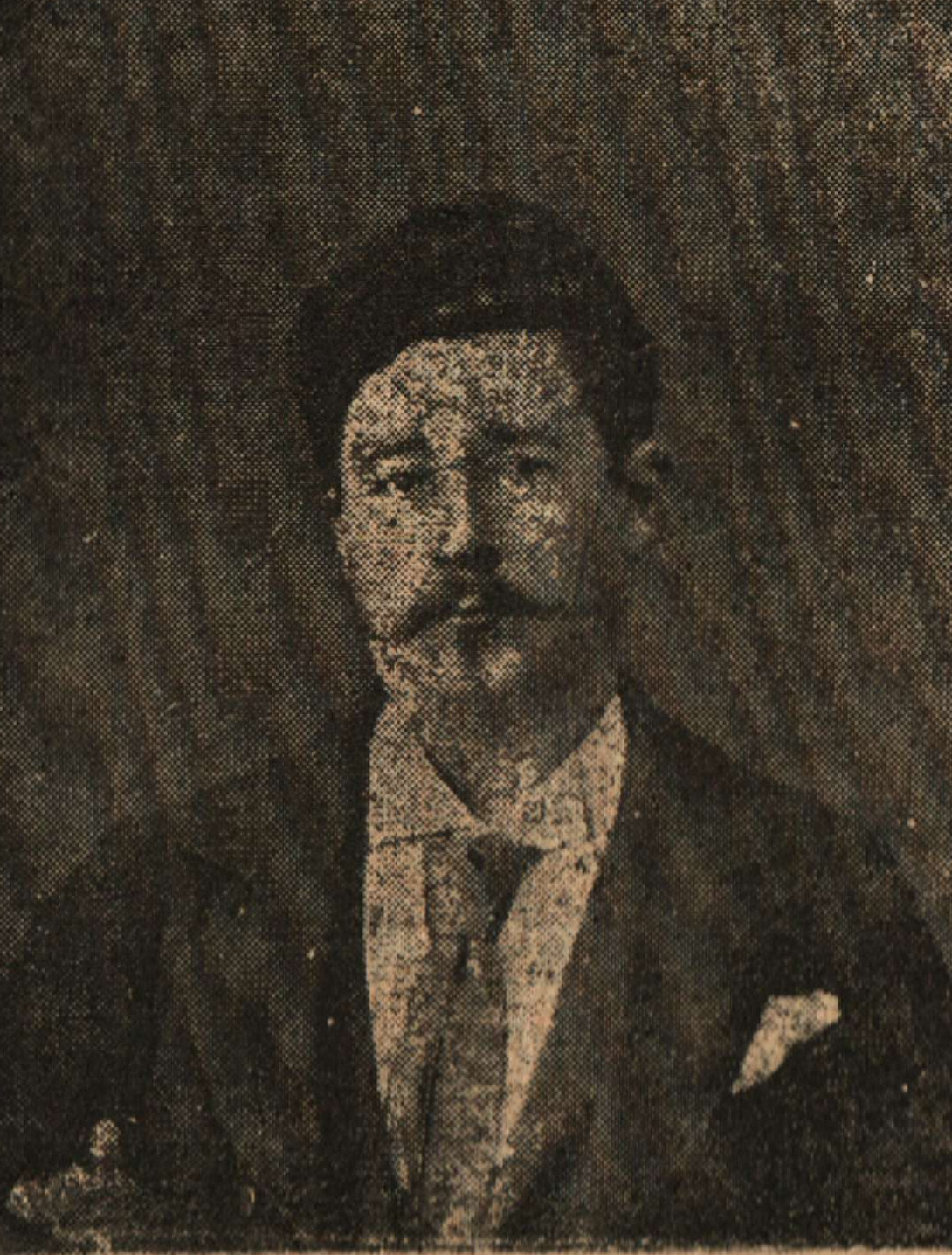 Bulgarian actor Stefan Popov (1846-1920)